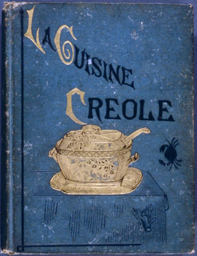 Cover, first edition, La Cuisine Creole: A Collection of Culinary Recipes from Leading Chefs and Noted Creole Housewives, published 1885, by Lafcadio Hearn